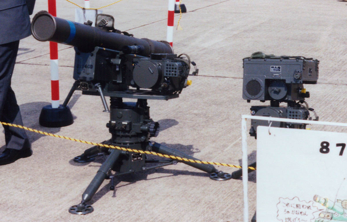 JGSDF Type87 ATM in Sendai.Taken by Los688, at 01-Oct-2000.PD-self. ja:2000年10月1日撮影。87式対戦車ミサイル。撮影地、霞目駐屯地。